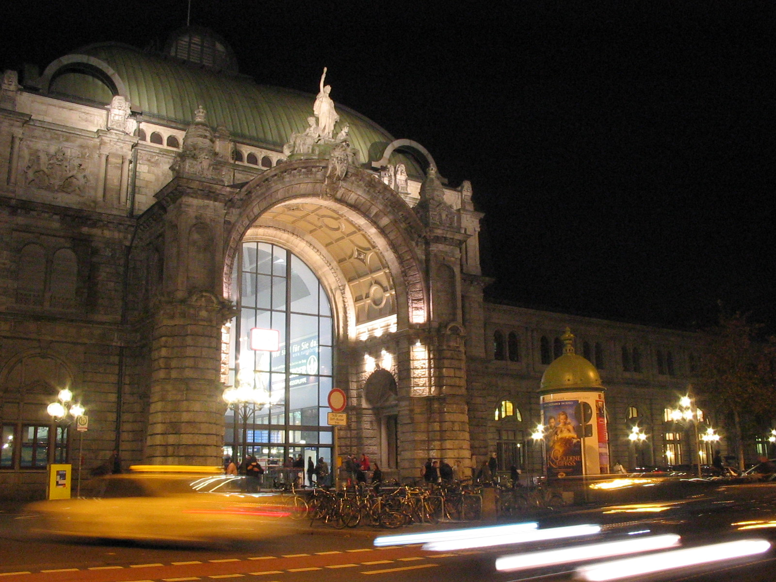 Nuremberg Main Railway Station at night